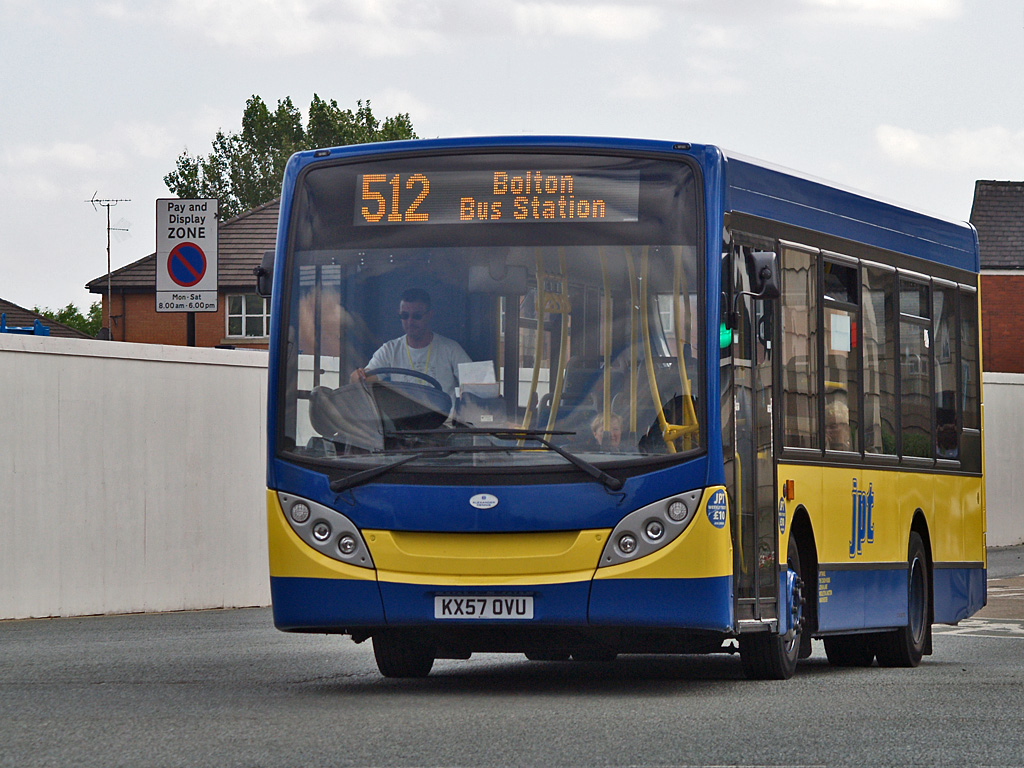 JP Executive Travel KX57 OVU, an Alexander Dennis ‘Dart Enviro 200’ built 2007 with an Alexander Dennis ‘Enviro 200’ B29F body on Knowsley Street in Bury heading for Bury Interchange. Tuesday 10th June 2008